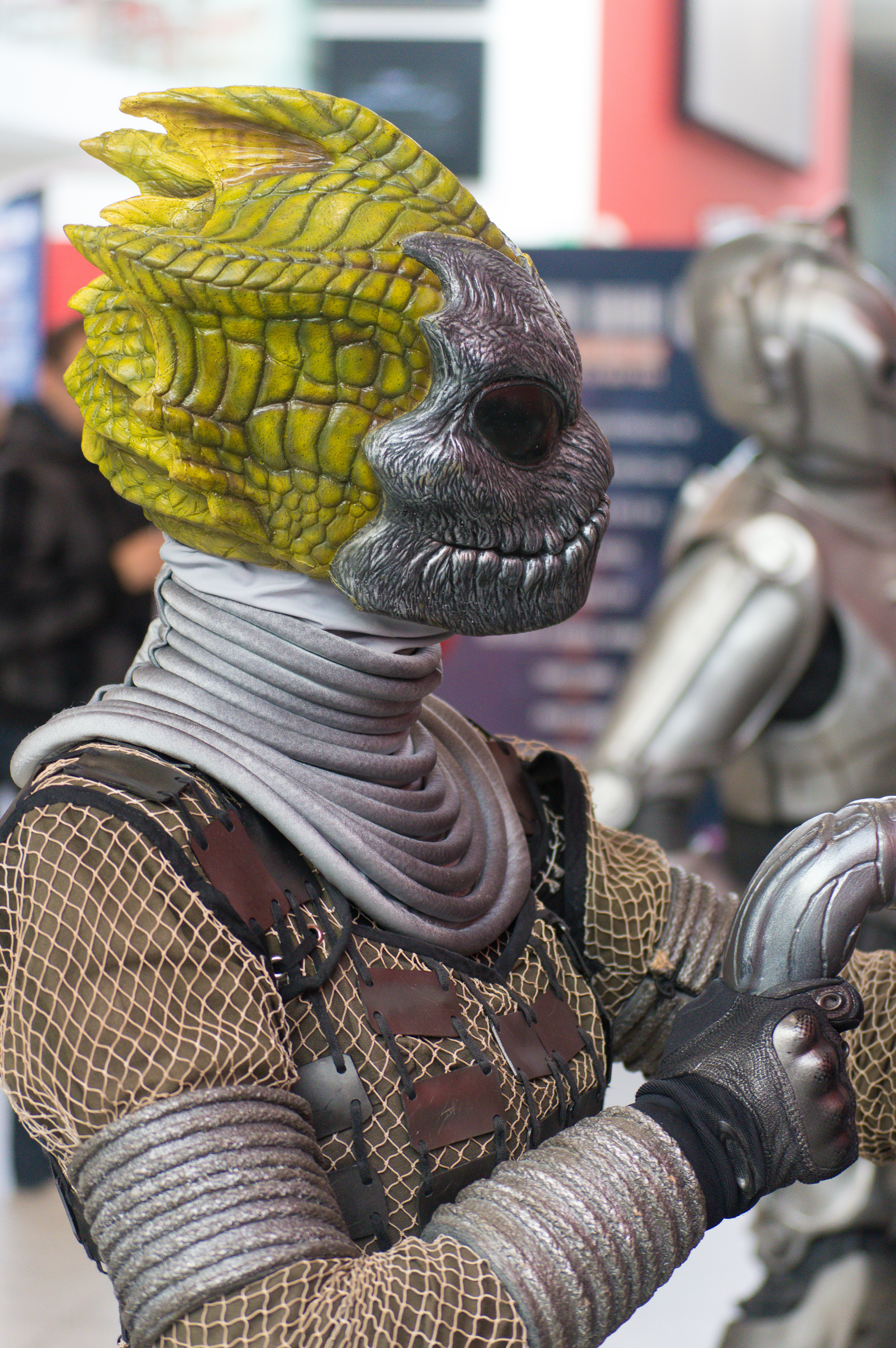 Silurian Doctor Who Experience